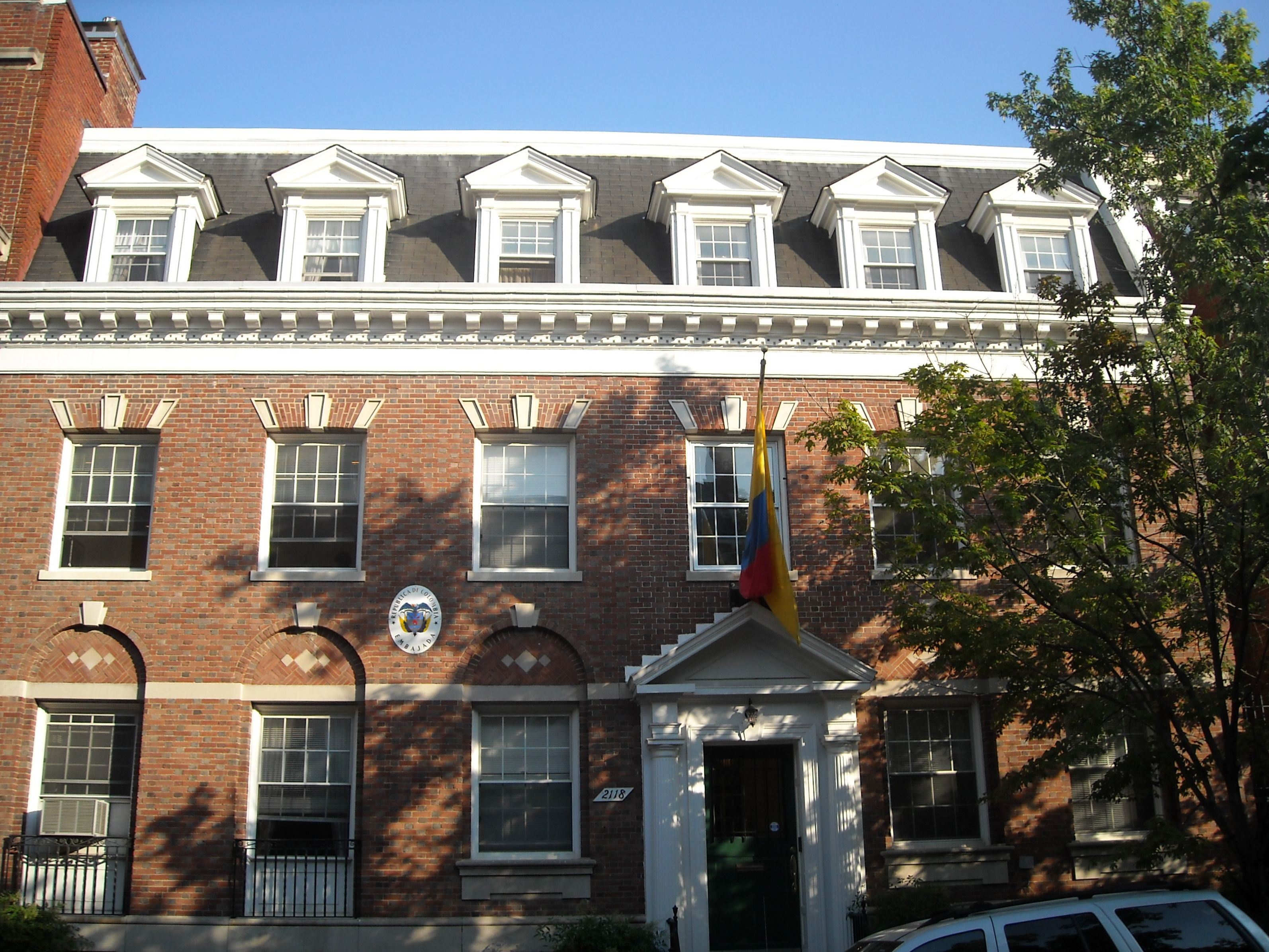 The Embassy of Colombia located at 2118 Leroy Place, N.W., in the Sheridan-Kalorama neighborhood of Washington, D.C. Built around 1915 as a private residence, the Colonial Revival-style building is designated as a contributing property to the Sheridan-Kalorama Historic District, listed on the National Register of Historic Places in 1989. Previous occupants include Henry S. Graves.